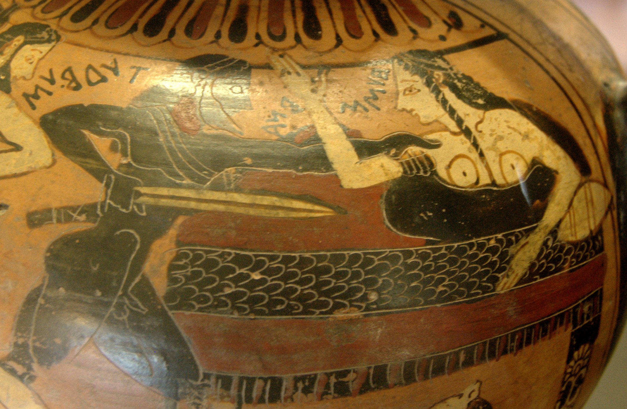 Tydeus and Ismene. Side A from a Corinthian black-figure amphora, ca. 560 BC.